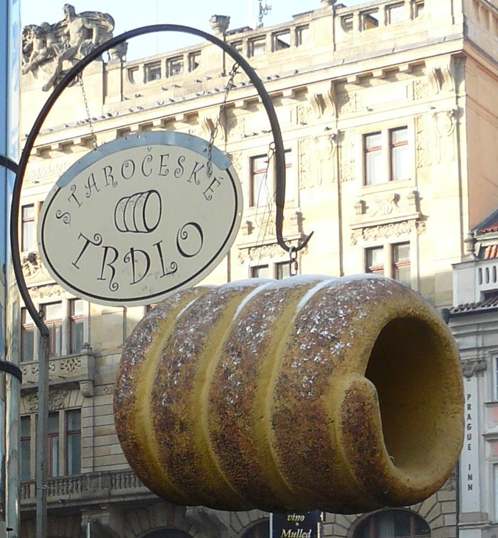 Old-Czech Trdlo (cake). Praha.